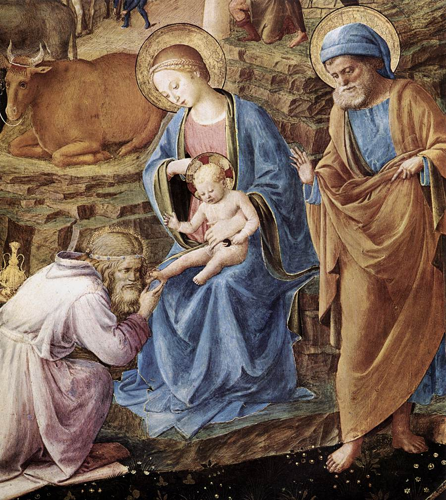 ANGELICO, Fra The Adoration of the Magi (detail) Panel National Gallery of Art, Washington